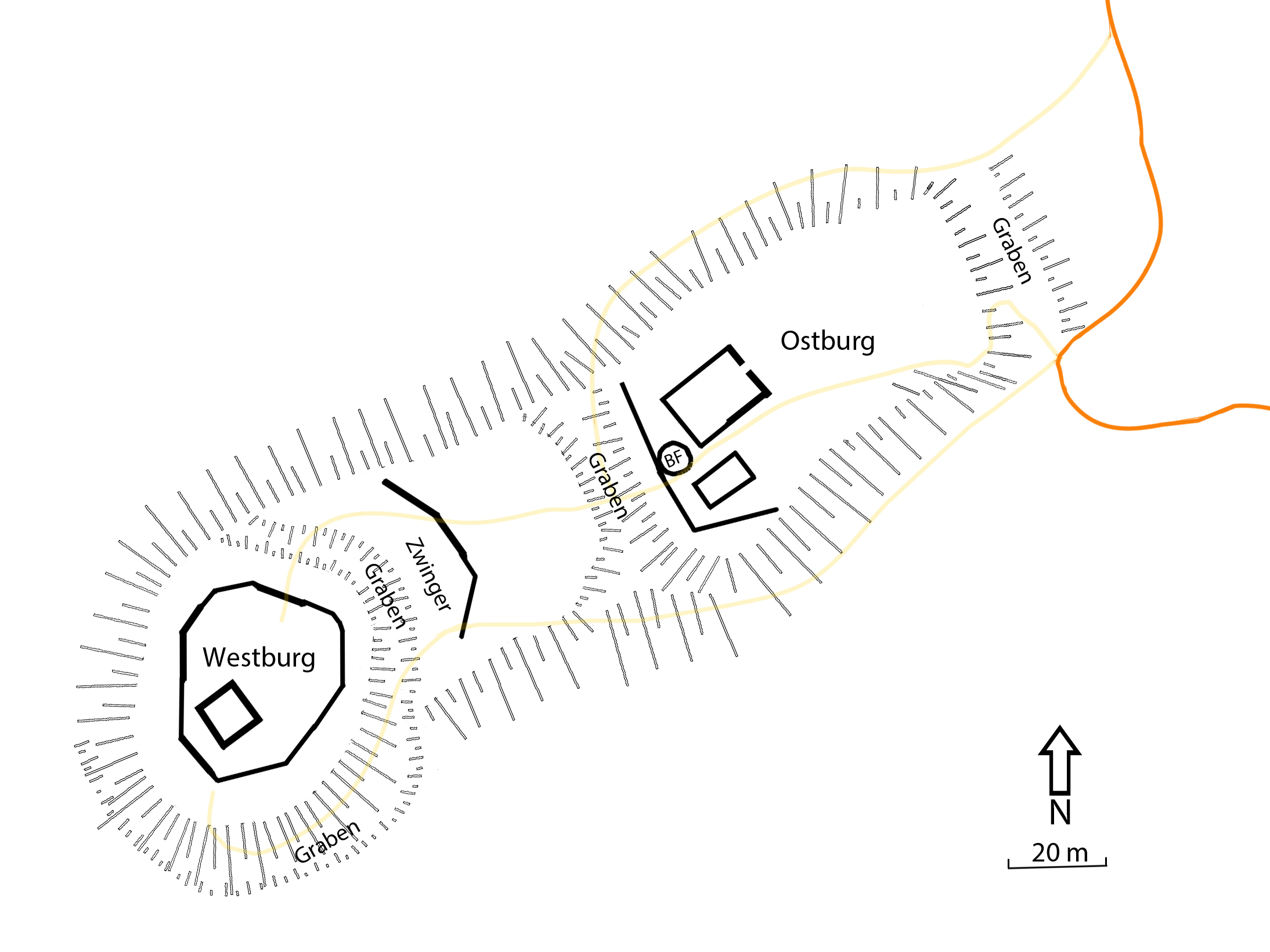 Floor plan of castle Altes Schlössel near Dossenheim, sometimes historicaly incorrectly referred to as Kronenburg. Yellowː modern foot paths, orangeː modern forest road; BF = assumed location of castle keep. Ostburg= eastern part of the castle, Westburg= western part of the castle, Zwinger= inner bailey, Graben= neck ditch. All walls are in the state of severe decay, hence the floor plan could only give a first estimate.